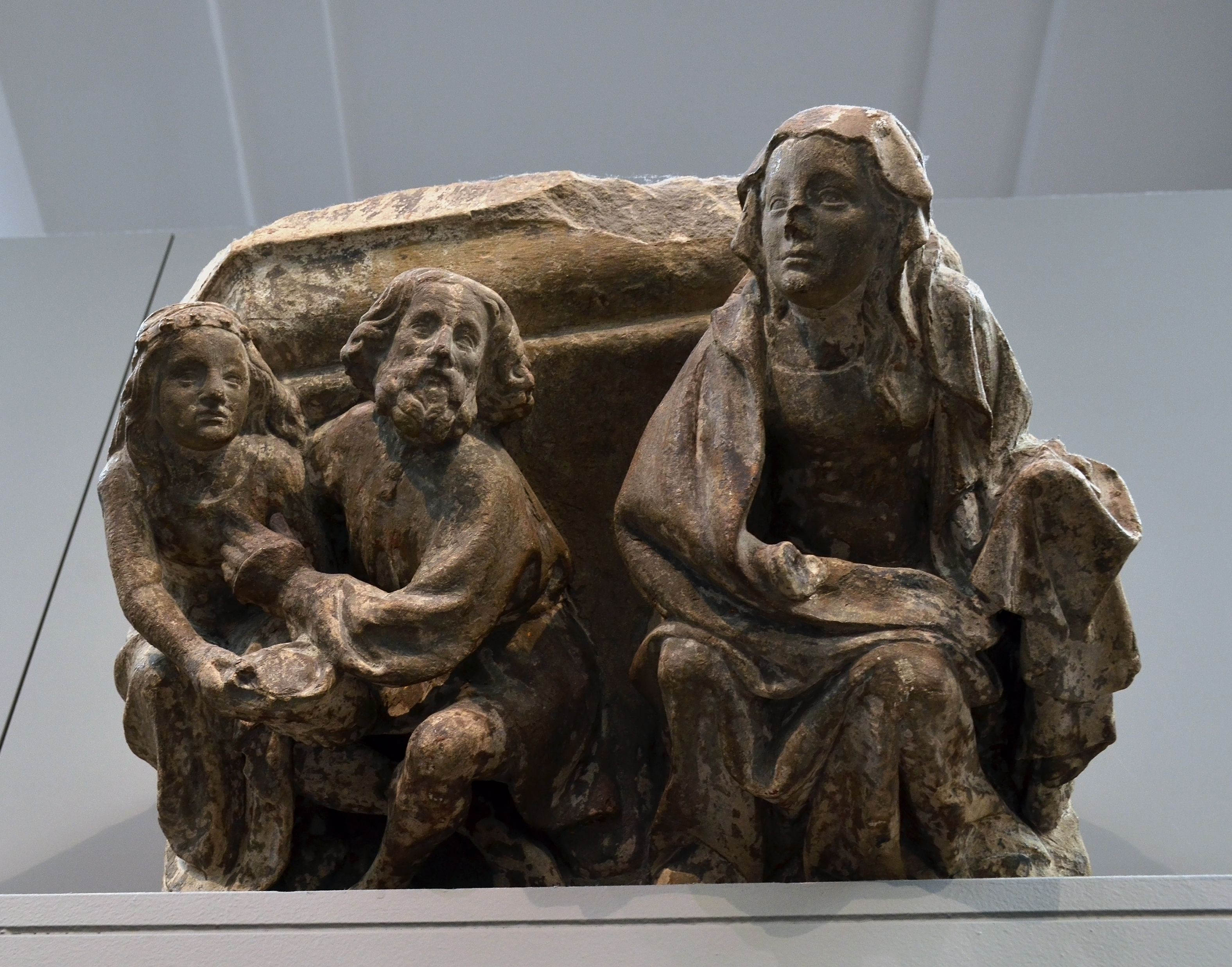 Tristan, Ysolt and the servant Brangien ; console from the Town Hall of Bruges, sandstone with remains of polychromy, end of the 14th century ( between 1376 and 1380 ), workshop of Jean de Valenciennes. Groeningemuseum in Brugge.